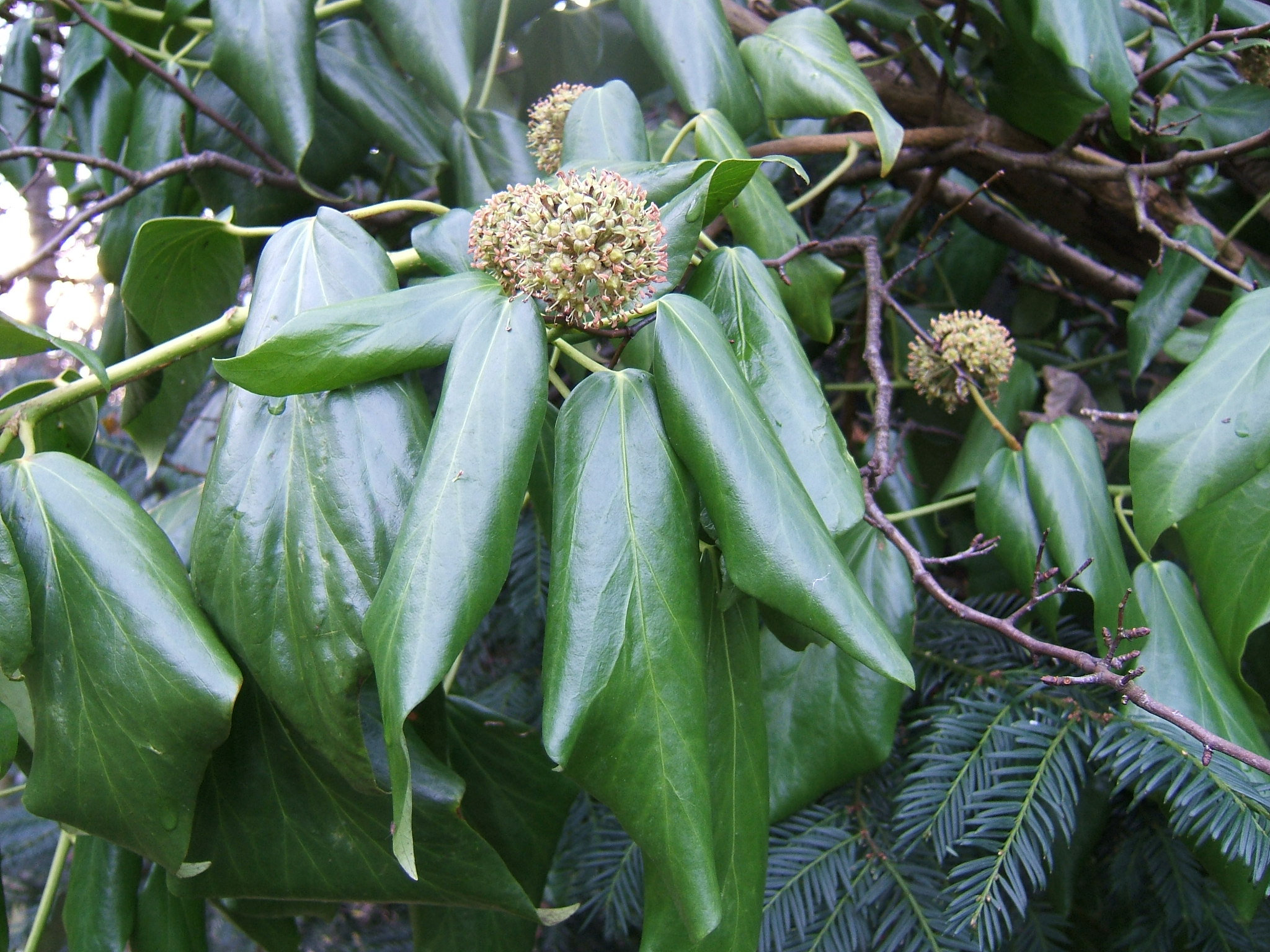 Hedera colchica. Naturalised, Newcastle, Northumberland, UK.